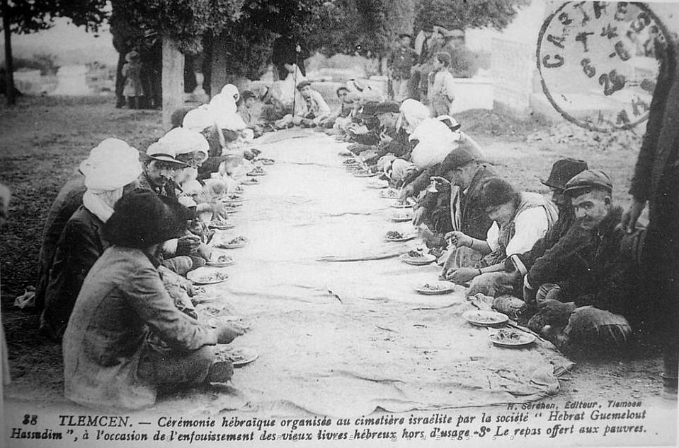 Jewish ceremony at the Jewish cemetary in Tlemcen (Algeria)